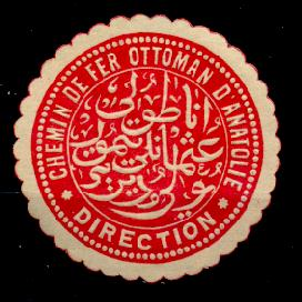 Old embossed seal of the CO (Chemin de fer Ottoman or Ottoman Railway Company of Anatolia).